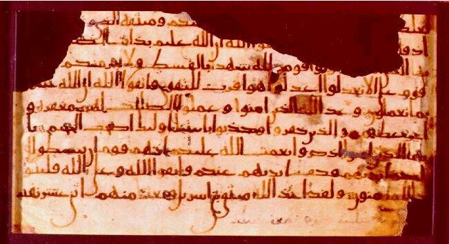 A rare fragment of a Qur'anic manuscript written on parchment in this early form of the Kufic script, most probably developed in Madinah during the late 7th century C.E. Verses 7 through 12 of Surah al-Ma'idah. Location: Beit al-Qur'an, Manama, Bahrain.